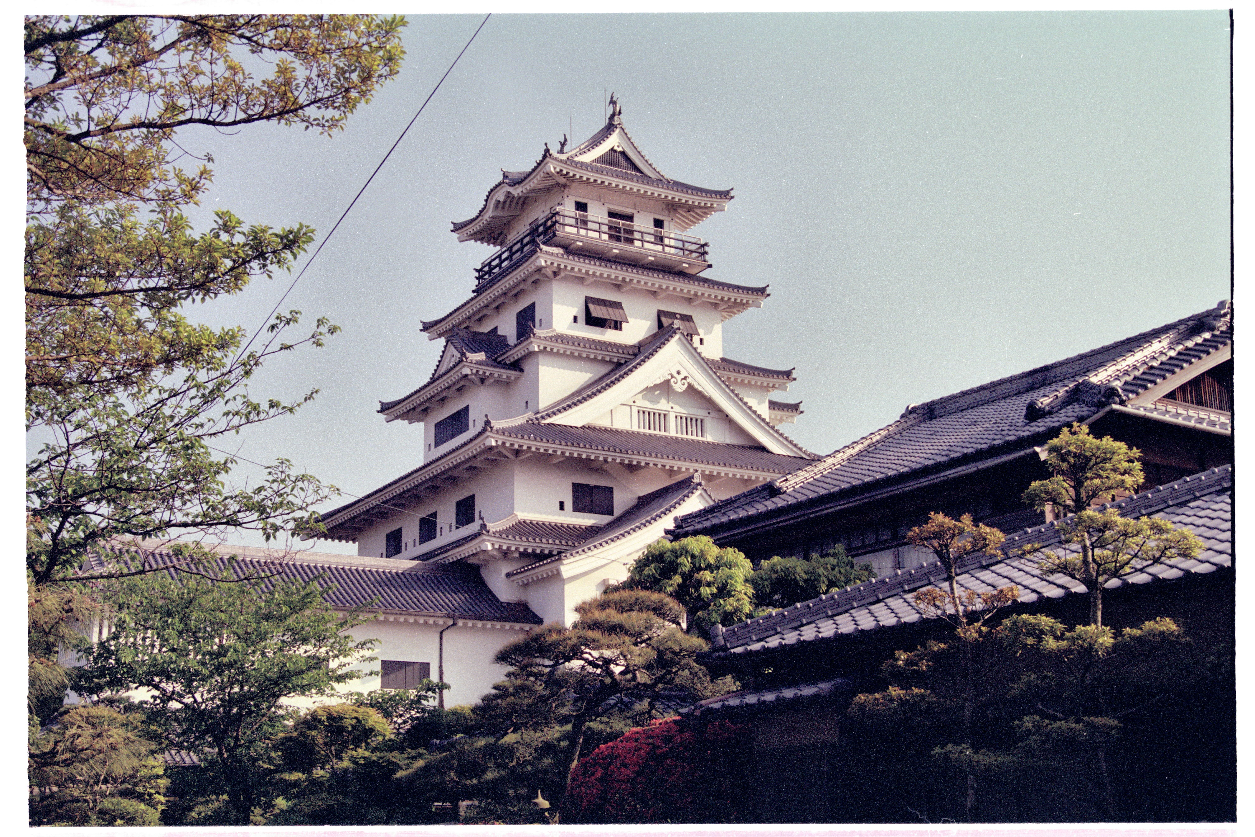 Imabari Castle, Imabari, Ehime.